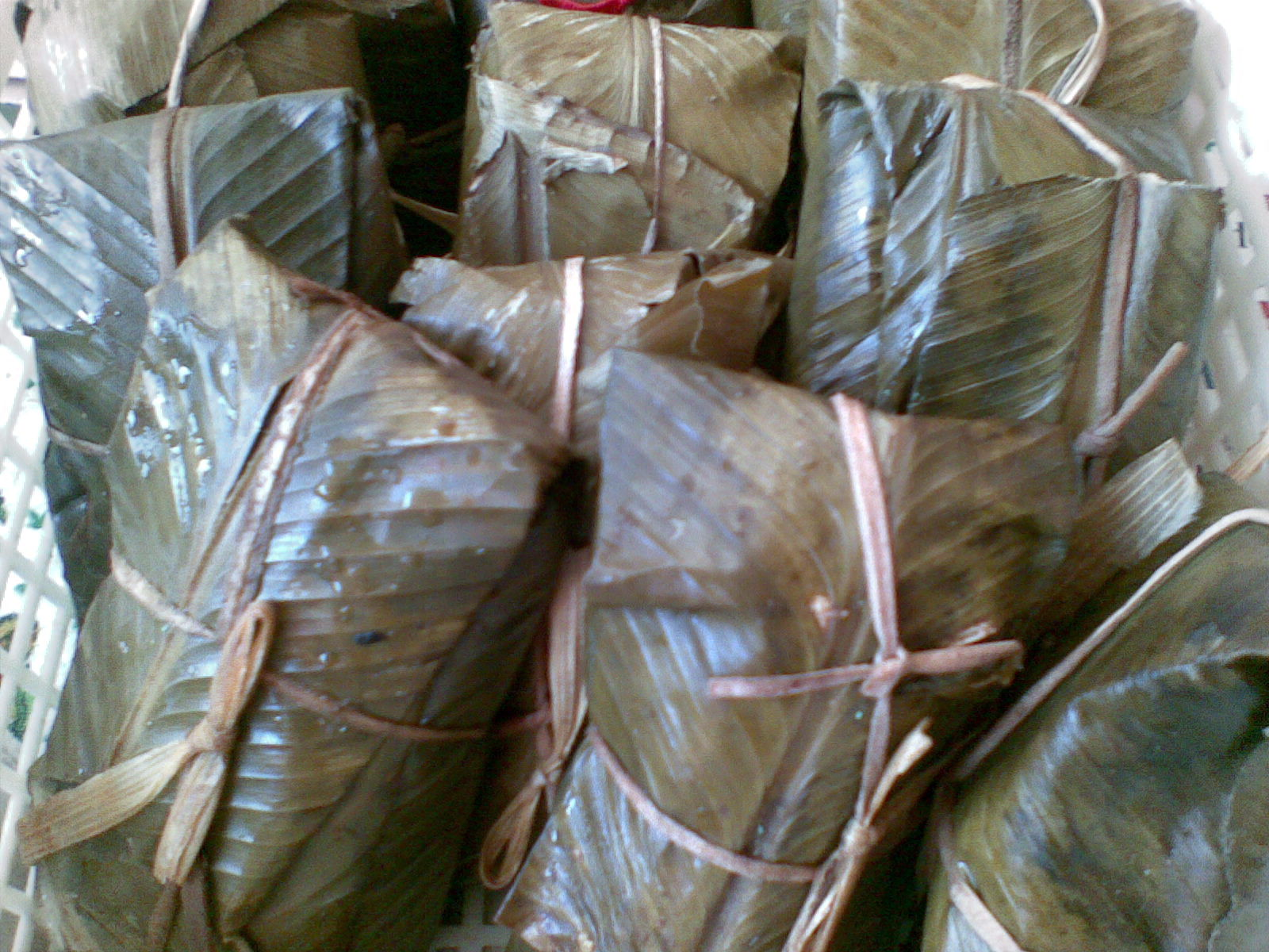 Wrapped tamales